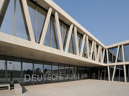 German School in Geneva (Deutsche Schule Genf) in Vernier, Switzerland. The building was designed by the architects Soliman Zurkirchen and completed in 2007.